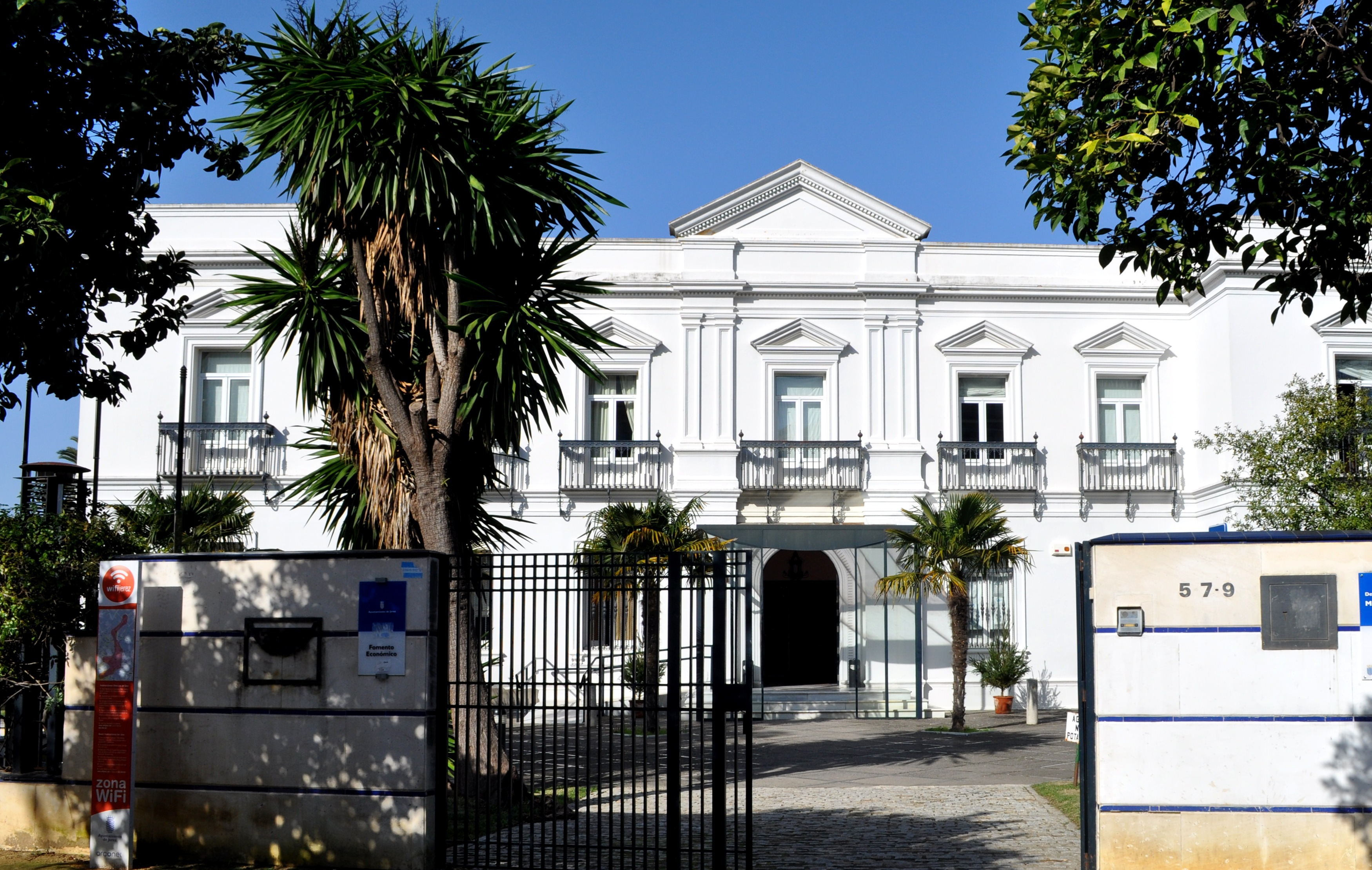 Avenida Alcalde Alvaro Domecq St., Jerez de la Frontera